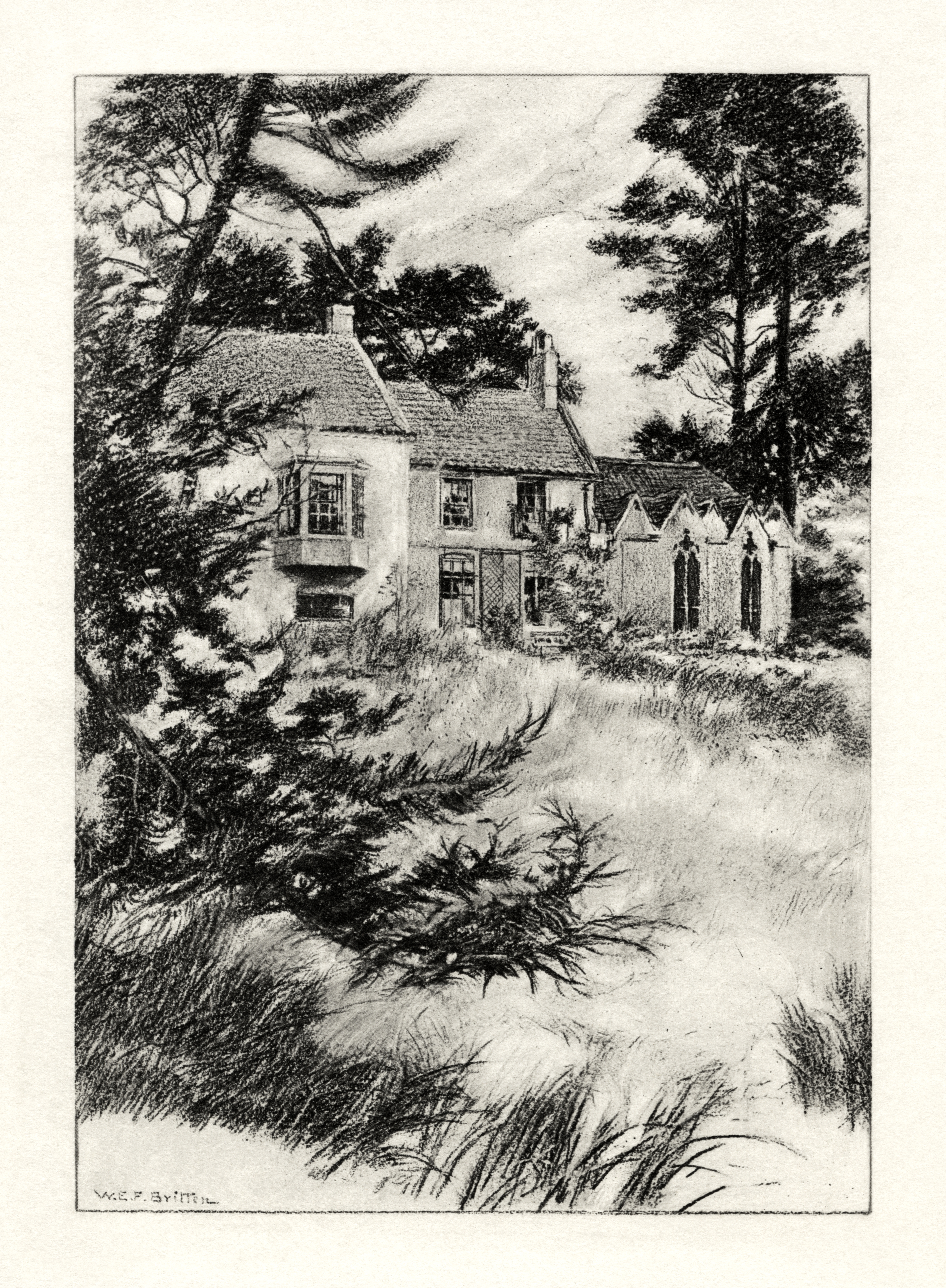 Illustration of The Garden at Somersby Rectory, the house where Tennyson wrote many of his early poems. by W. E. F. Britten for The Early Poems of Alfred, Lord Tennyson.